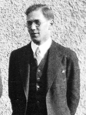 Owsei Temkin. Leipzig Iconographic Collections Keywords: Owsei Temkin